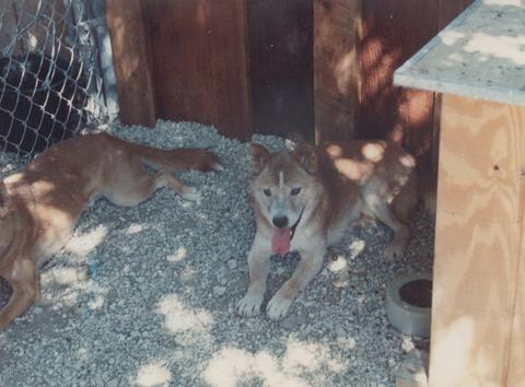 Old Dingo, a New Guinea Singing Dog descended from the original pair that came to the U.S.A. in 1961. He lived for over 20 years.